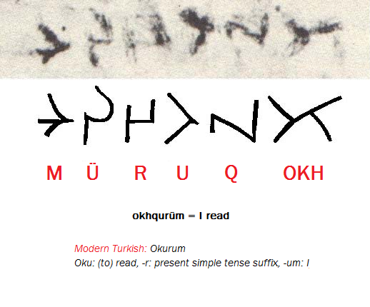 The Kievian Letter is an early 10th century (or possibly 11th century) letter written by a Khazarian Jewish community in Kiev. The letter, a Hebrew-language recommendation written on behalf of one member of their community, was part of an enormous collection brought to Cambridge by Solomon Schechter from the Cairo Geniza. It was discovered in 1962 during a survey of the Geniza documents by Norman Golb of the University of Chicago. The letter is dated by most scholars to around 930 CE. Some think (on the basis of the "pleading" nature of the text, mentioned below) that the letter dates from a time frame when Khazars were no longer a dominant force in the politics of the city.